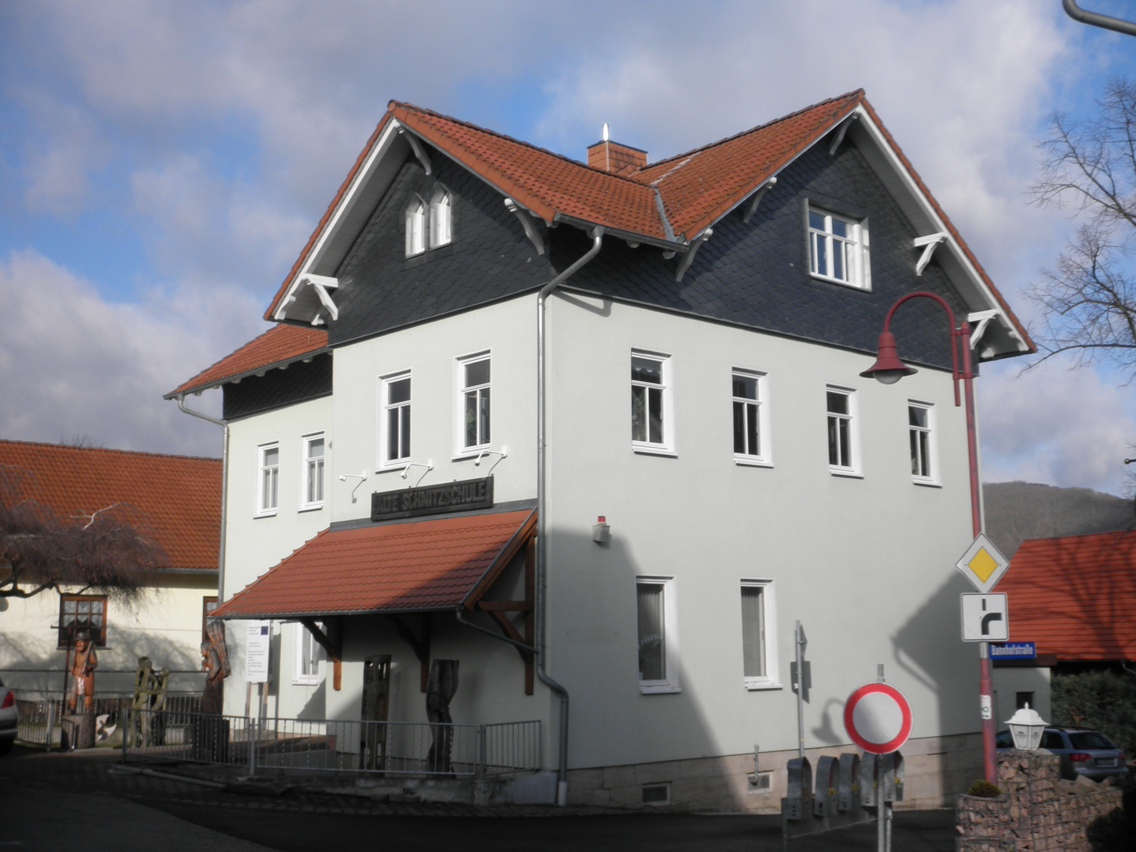 Old Carvers School (Museum) in Empfertshausen (Rhön)